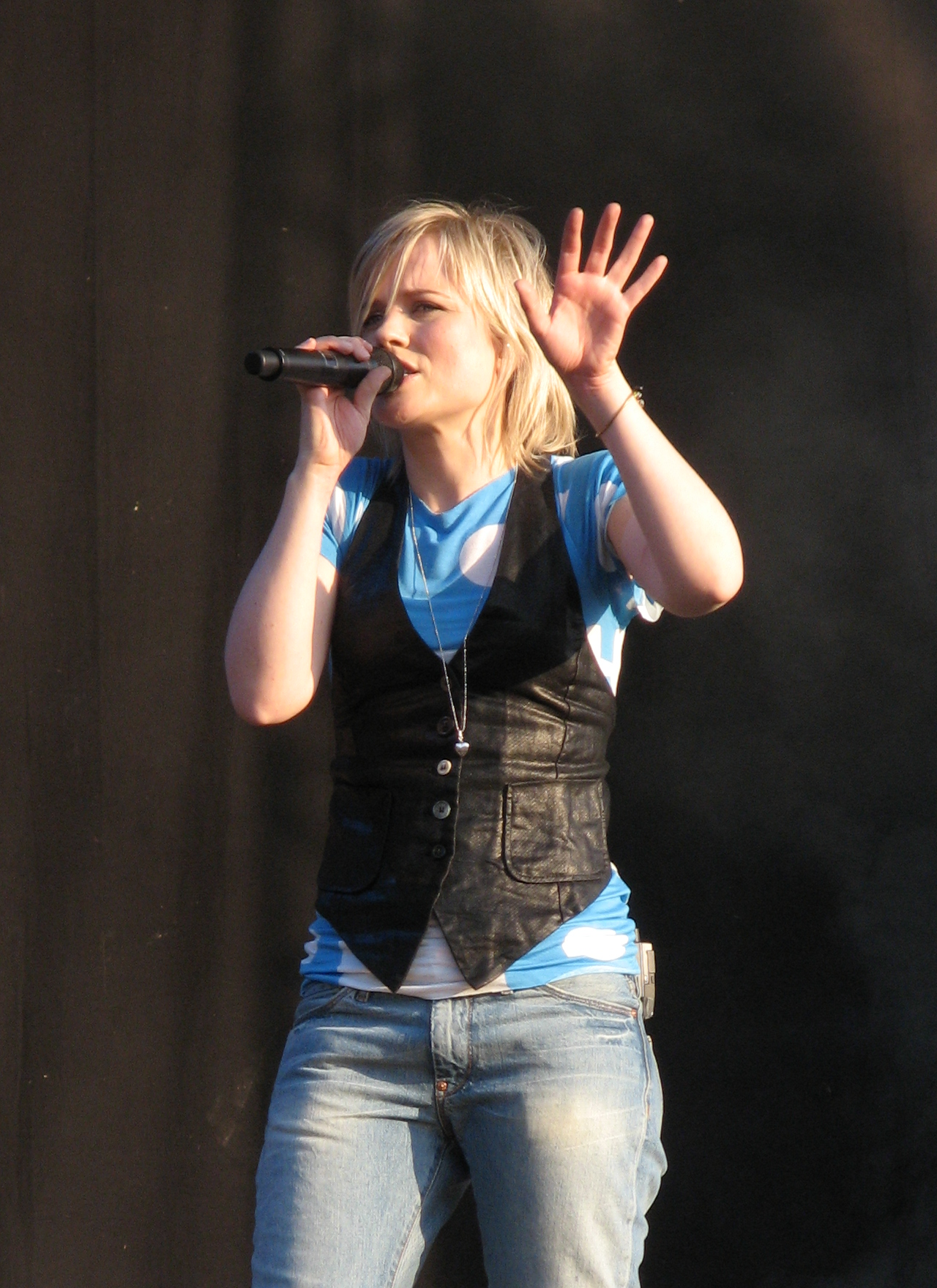 Ilse de Lange on Bevrijdingsfestival 2008, Zwolle